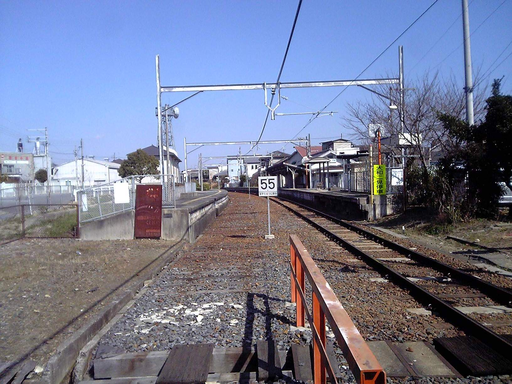 Yamato-Futami Station viewed from the level crossing on the Sumida Station side